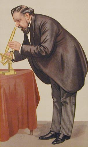 Caricature of Frank Crisp (1843-1919) (later Sir Frank Crisp, 1st Baronet).